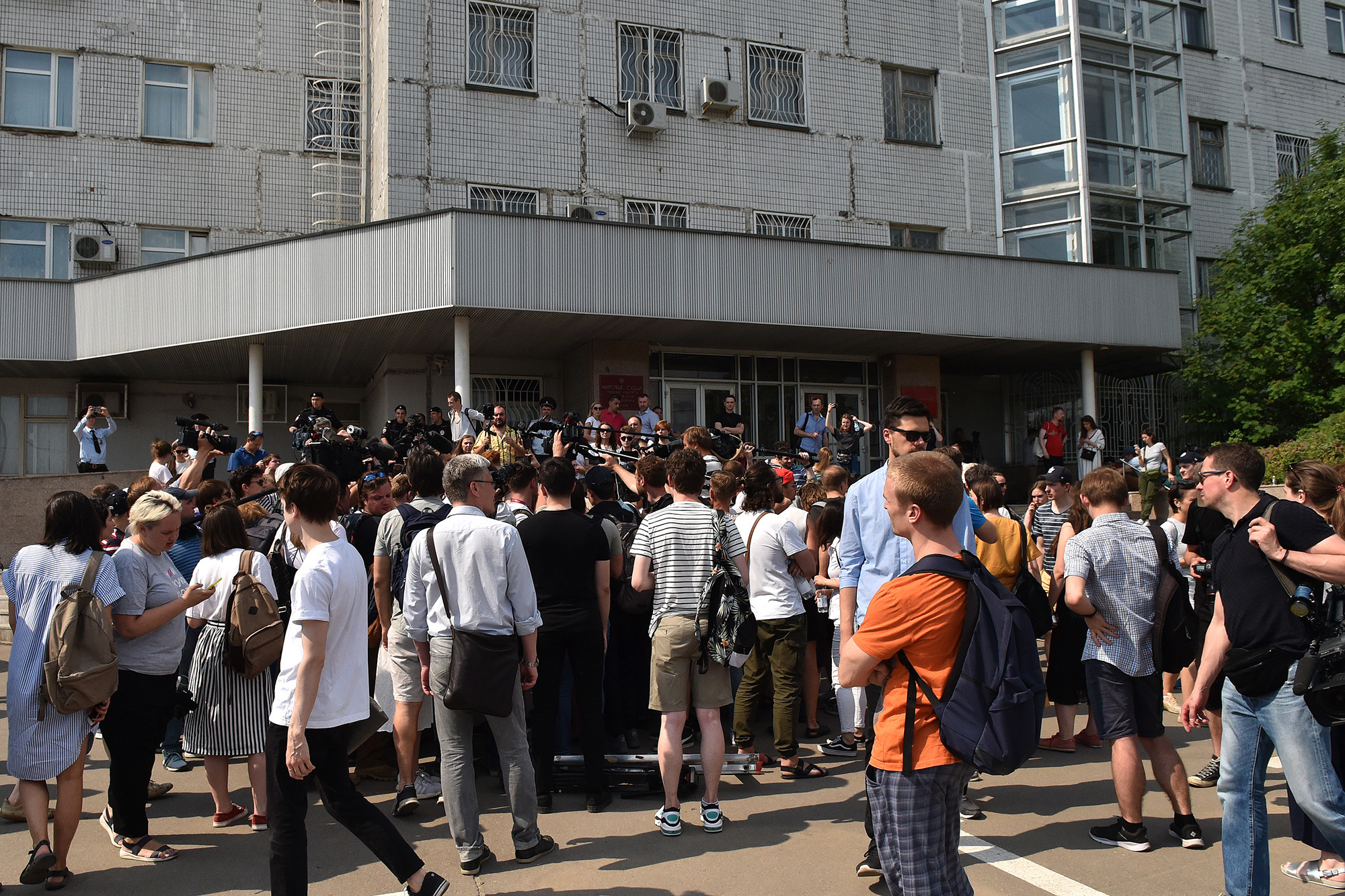 Journalists and supporters of Ivan Golunov, a journalist who worked for the independent website Meduza, gather at a court building in Moscow, Russia, Saturday, June 8, 2019.